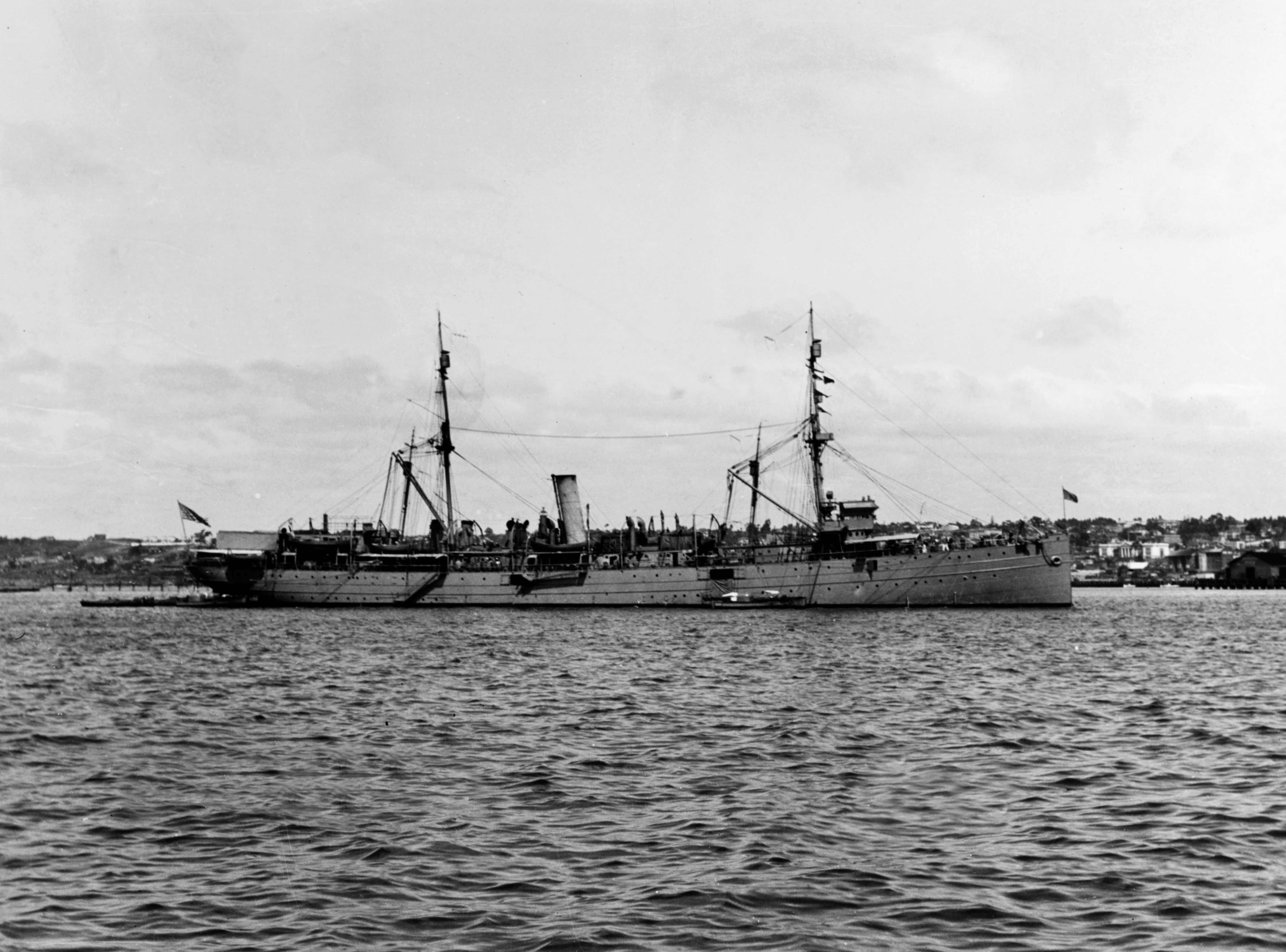 The U.S. Navy destroyer tender USS Prairie (AD-5) at anchor off San Diego, California (USA), circa 1920.